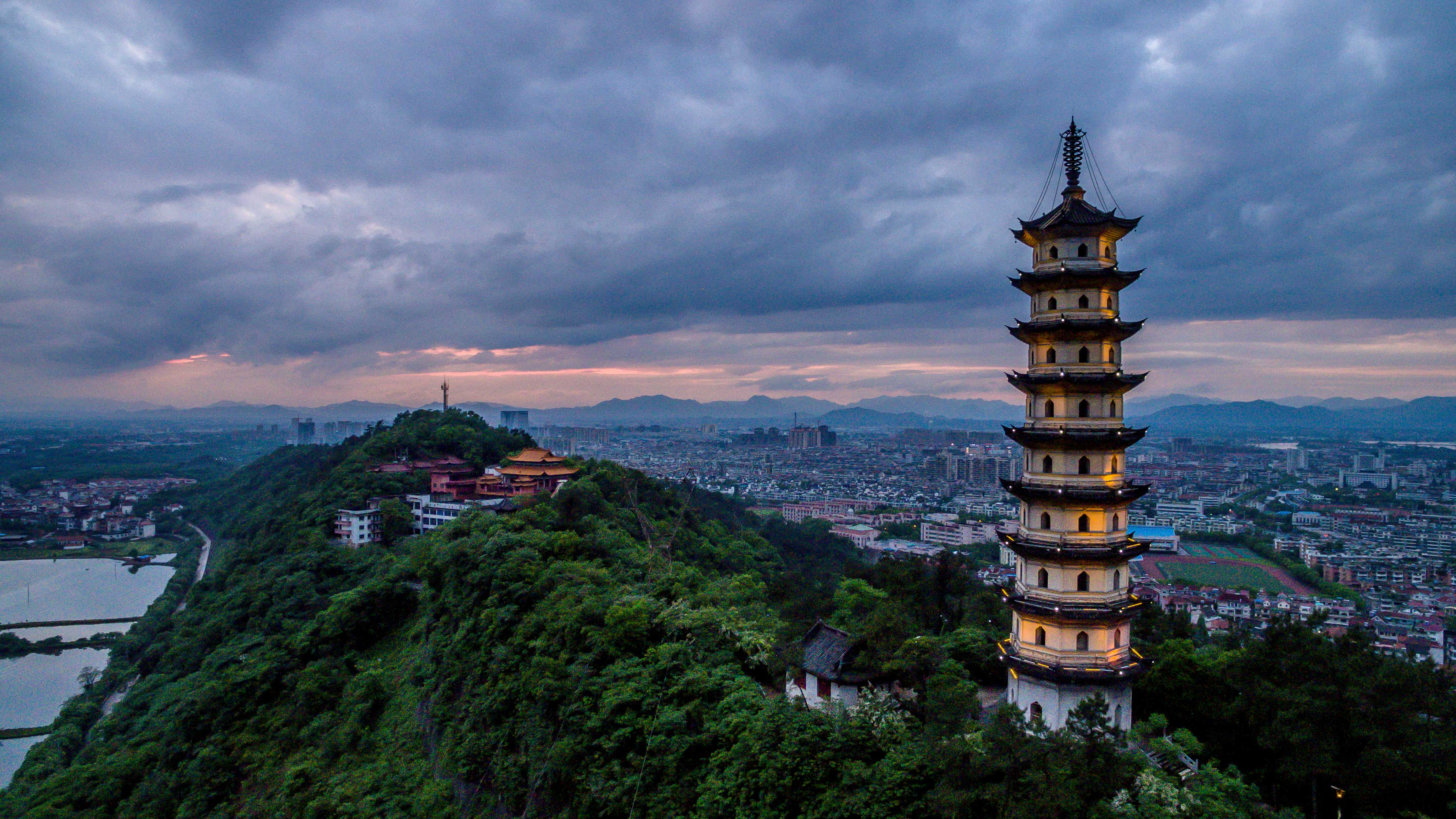 Lanxi Pagoda (contributed by PromoteMyCity)